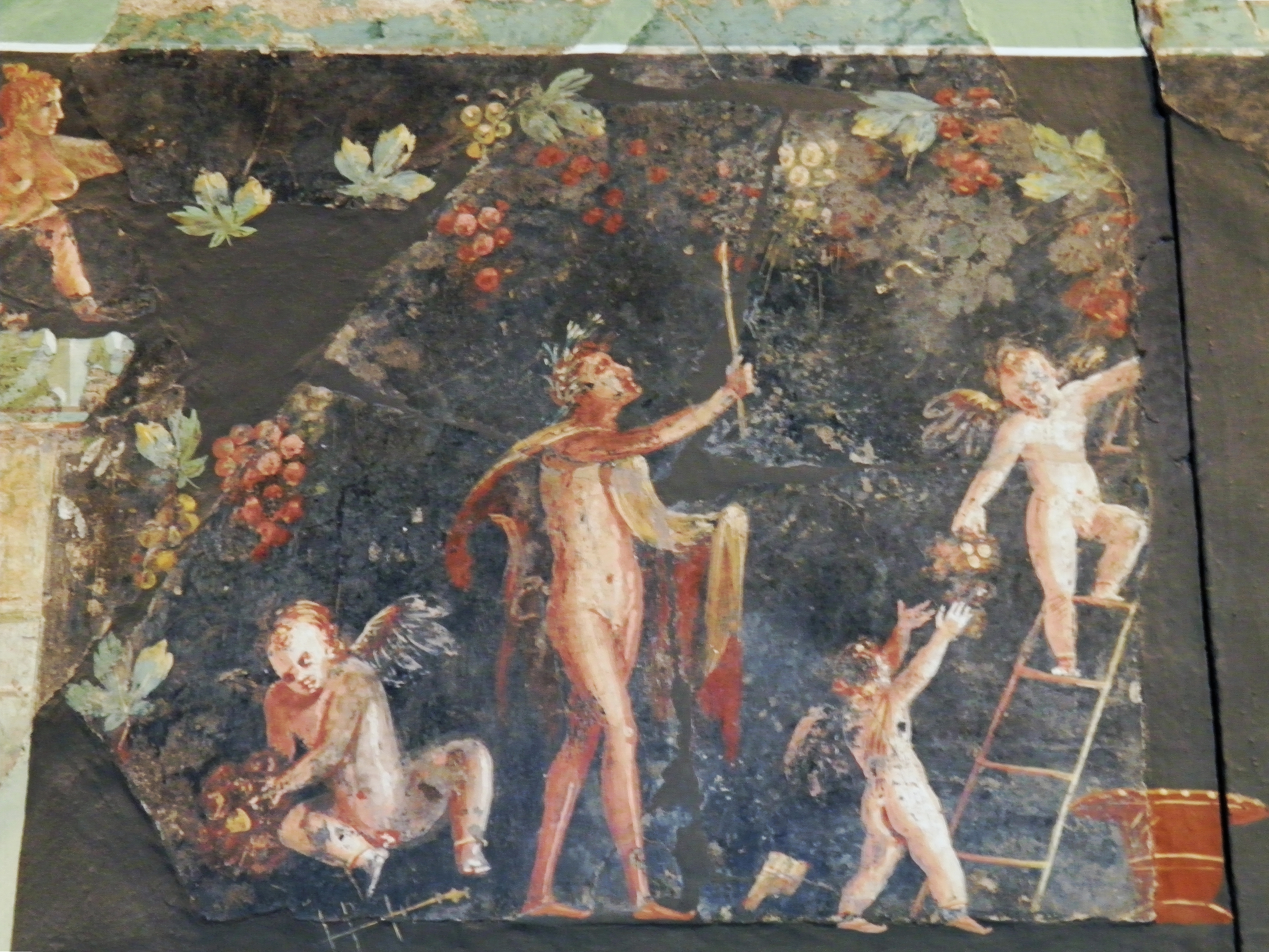 Wall painting with Dionysian scenes from a luxurious 3rd-century AD Roman villa excavated to the south of the cathedral in Cologne (site of the ancient city Colonia Claudia Ara Agrippinensium), Romisch-Germanisches Museum (Romano-Germanic Museum), Cologne.